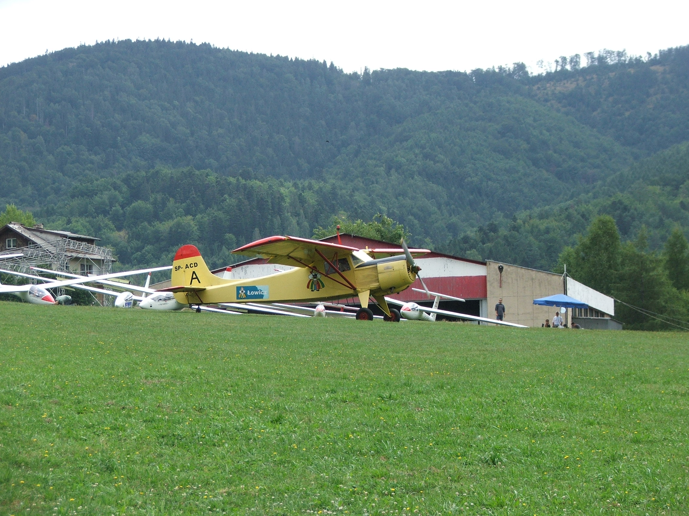 Polish Yakovlev Yak-12M (SP-ACD, no 200991) at Międzybrodzie Żywieckie